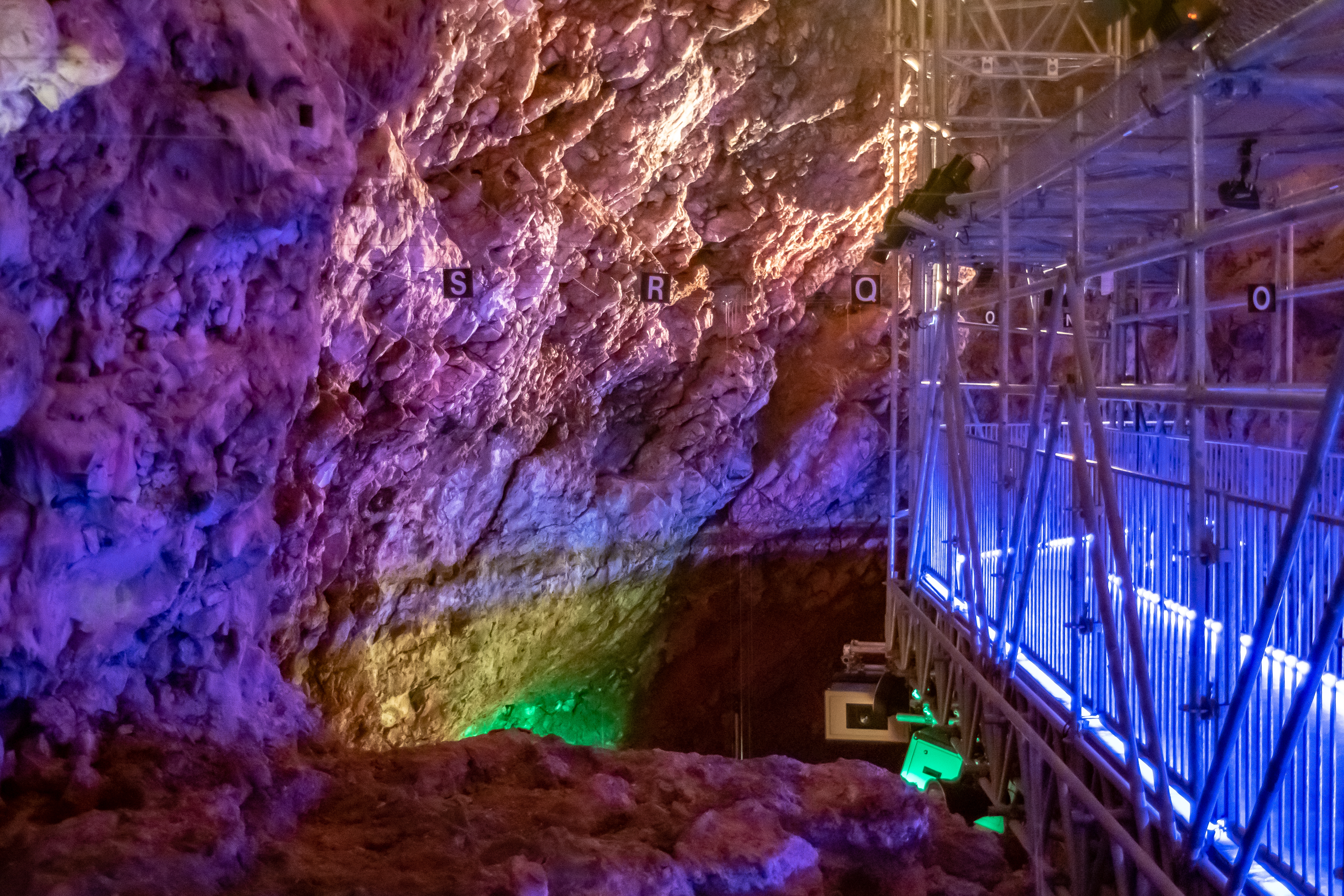 Colourful display of the archeological work inside the grotte du lazaret in Nice